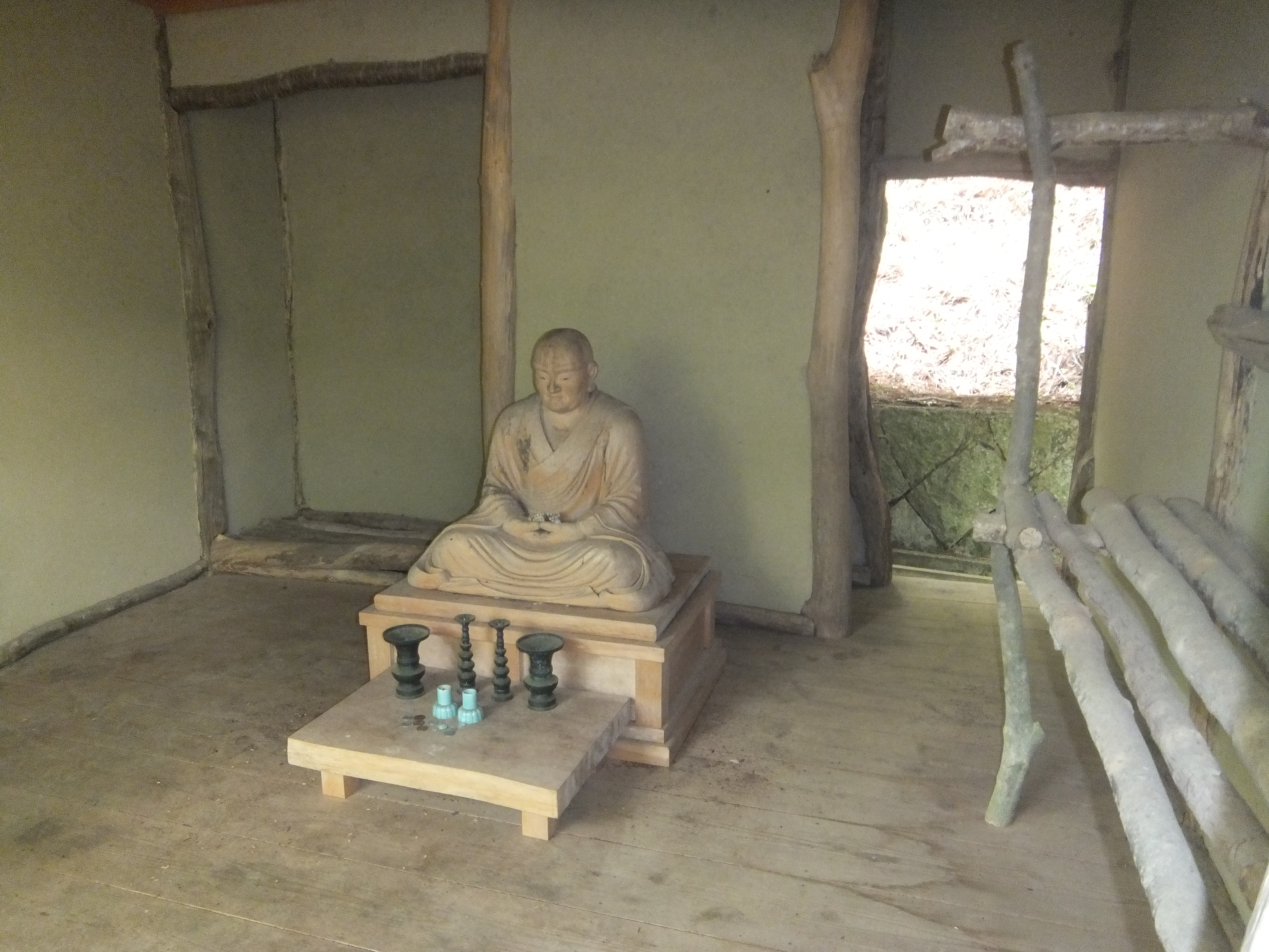 Saigyō-an, a hut in the mountains of Yoshino (Japan), where the poet Saigyō (jap. 西行; 1118-1190) wrote some of his famous poems.